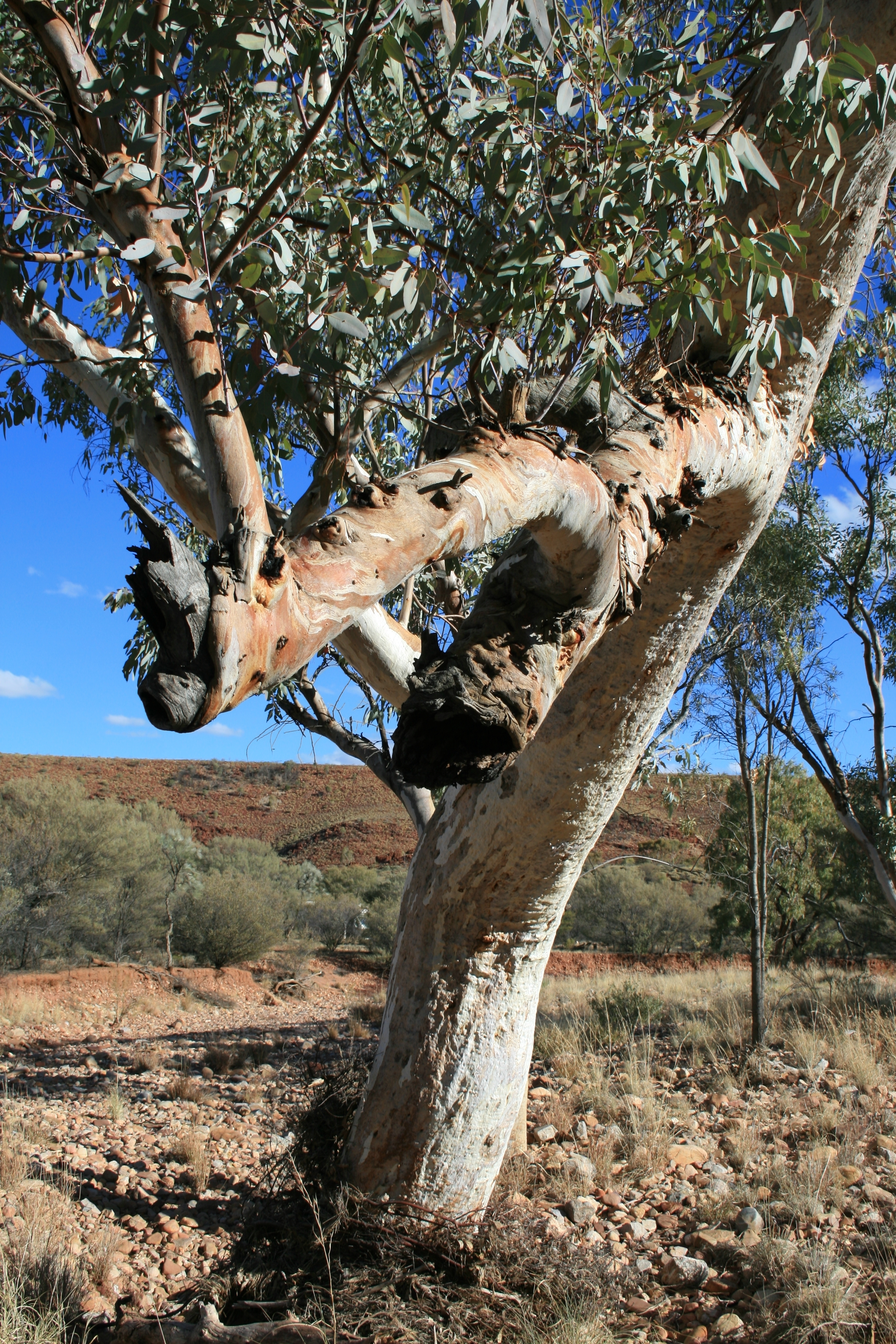 River Red Gum (Eucalyptus camaldulensis) trunk near the Ochre Pits, Namitjira Drive, Northern Territory, Australia.